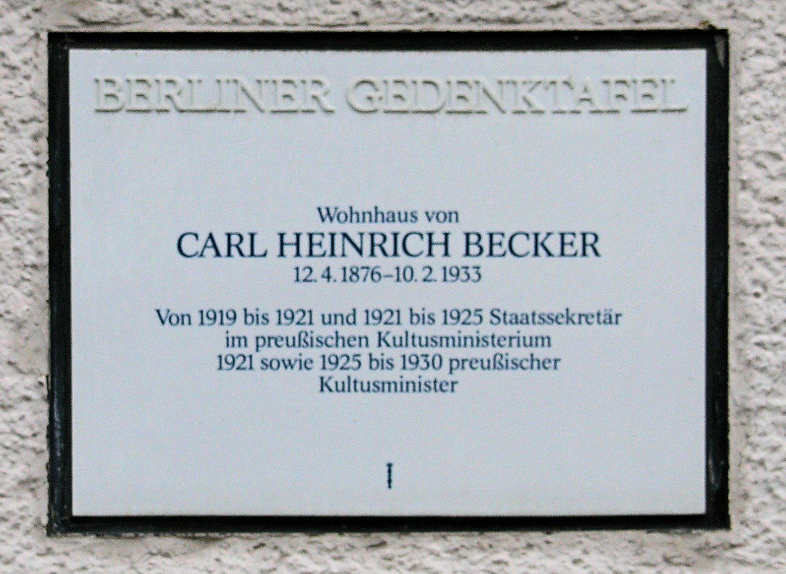 Berlin memorial plaque, Carl Heinrich Becker, Arno-Holz-Straße 6, Berlin-Steglitz, Germany Koordinate:52°27′31″N 13°18′32″E / 52.45861°N 13.30889°E